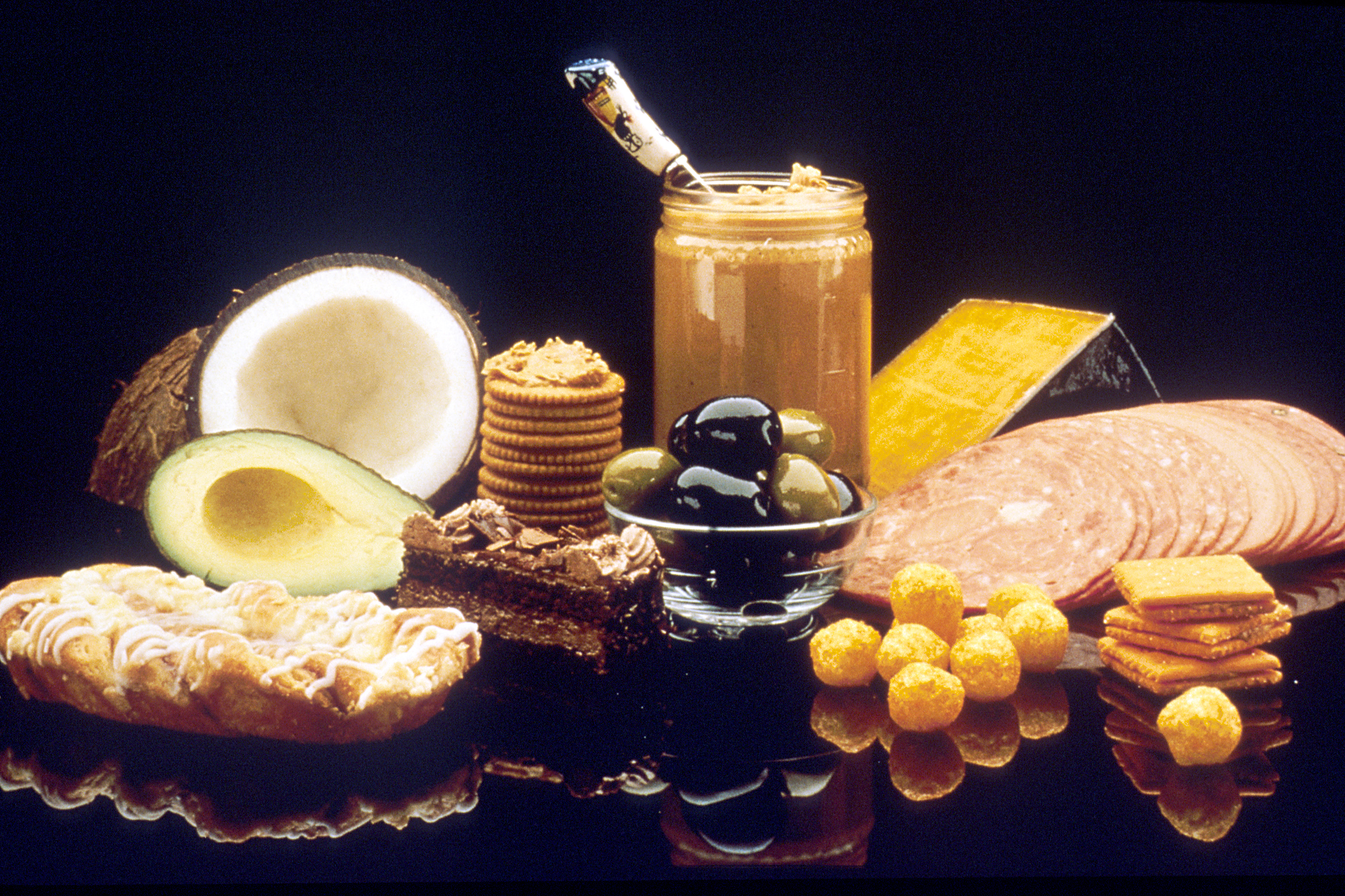 A display of high fat foods. Such as pastries, lunch meat, crackers, olives, avocado, peanut butter, and coconut on a table. Reuse Restrictions: None - This image is in the public domain and can be freely reused. Please credit the source and/or author listed above.